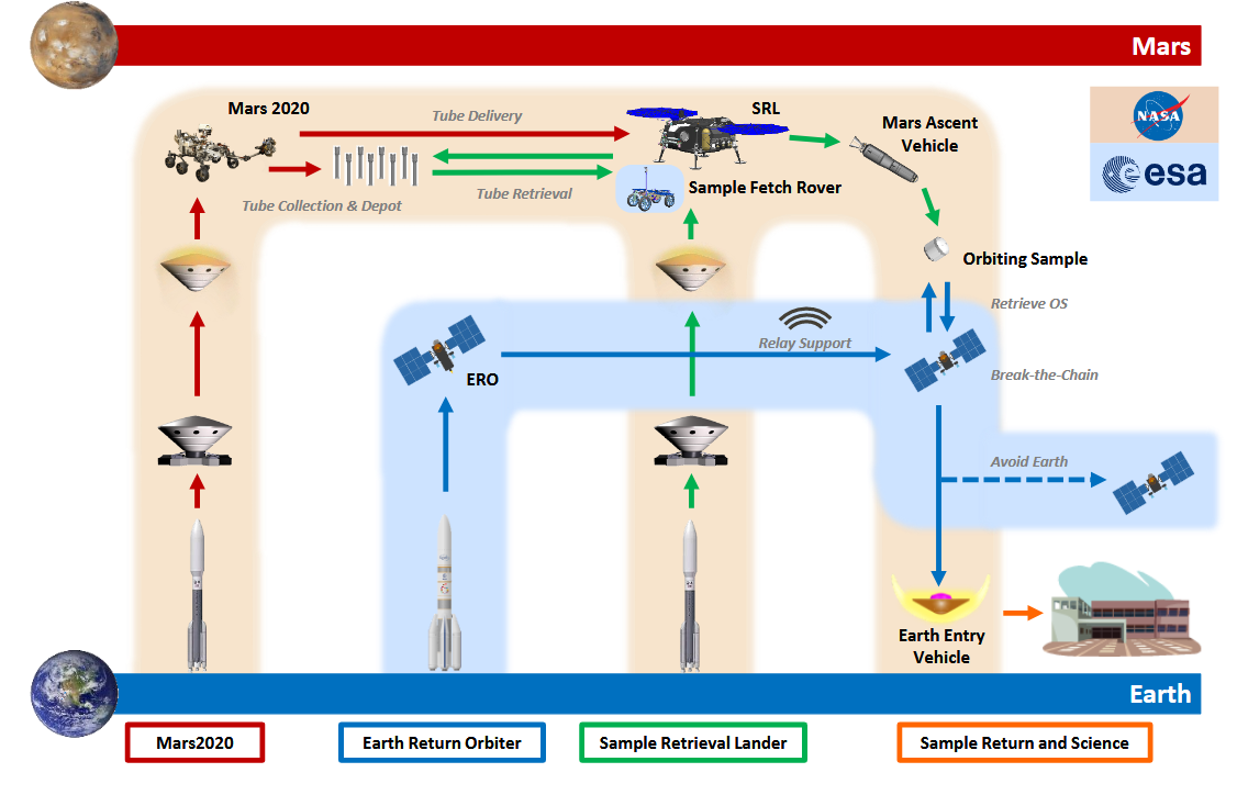 Mars Science Return - Timeline and Concept of Operations